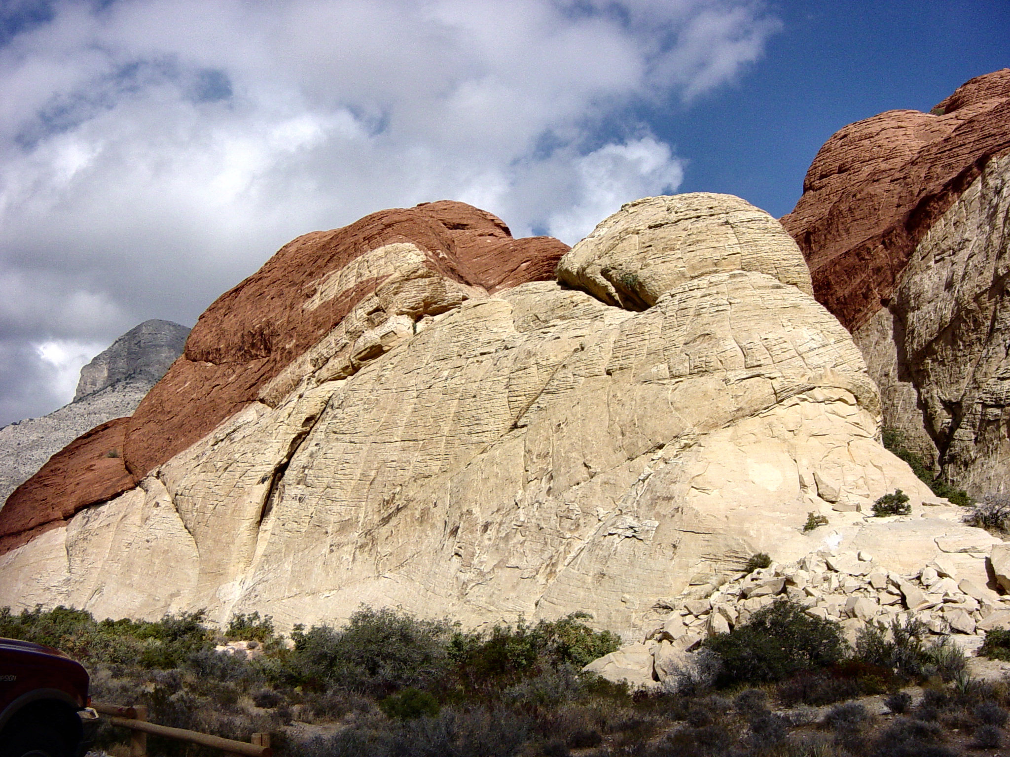 Red Rock Canyon, Nevada, USA. – Outcrop of Aztec Sandstone near the site of the old sandstone quarry. Note the cross bedding pattern left over from the original sand dune it formed from.